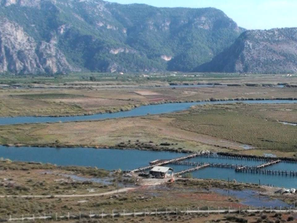 A dalyan seen from Küçük Kale at the archeological site of Kaunos